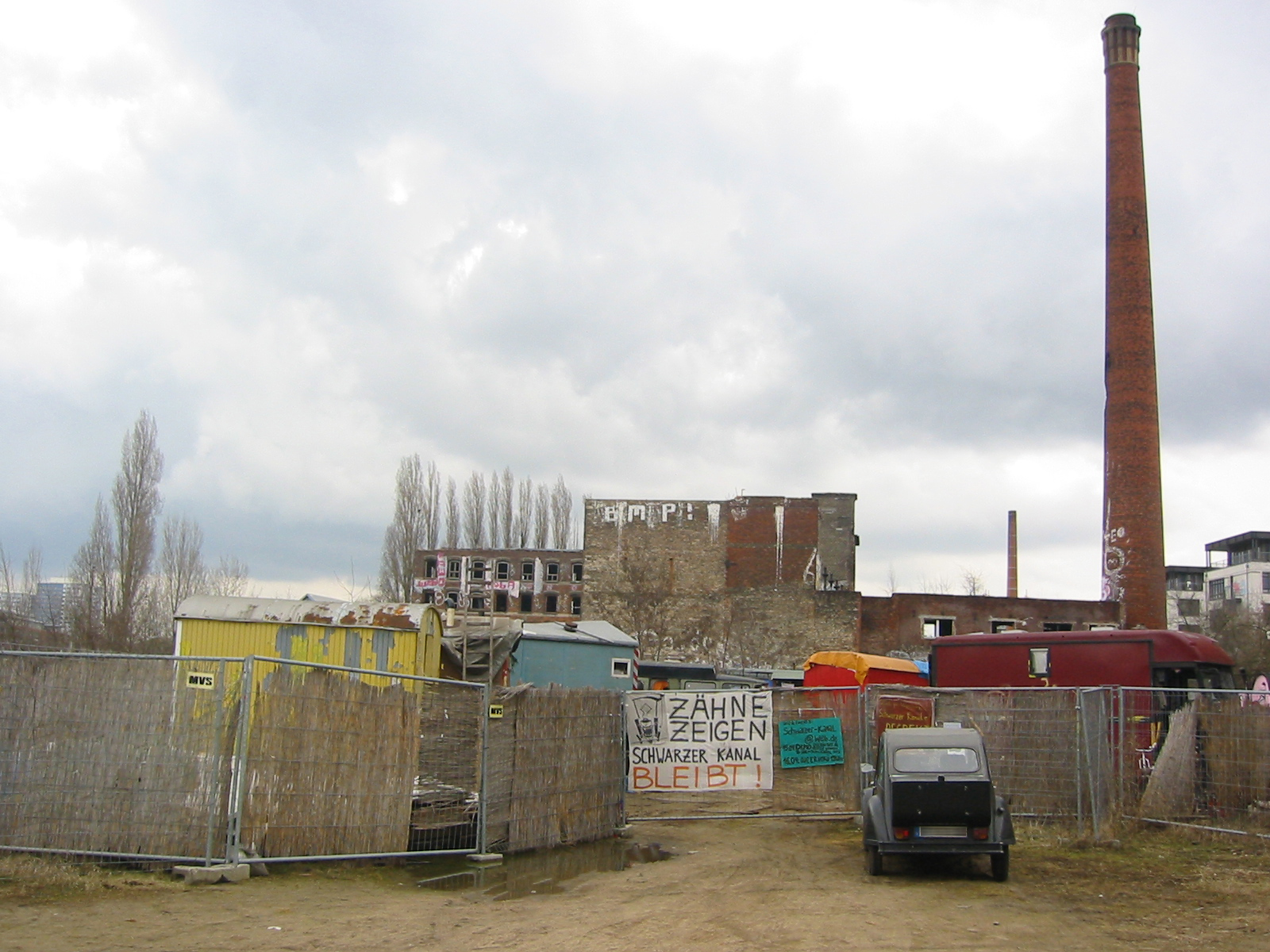 recorded by User:Nicor